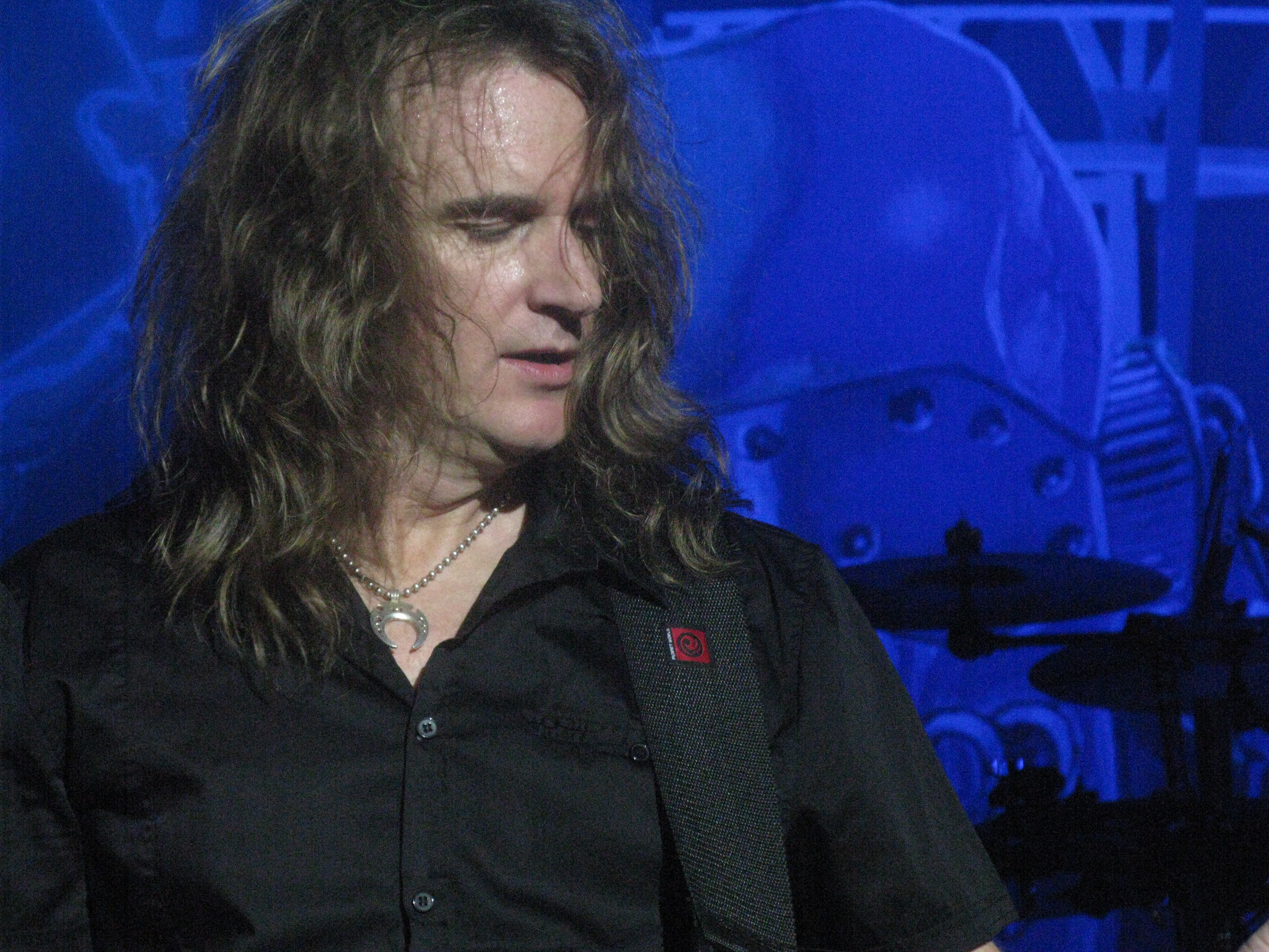 Dave Ellefson (Megadeth) during concert at Moscow